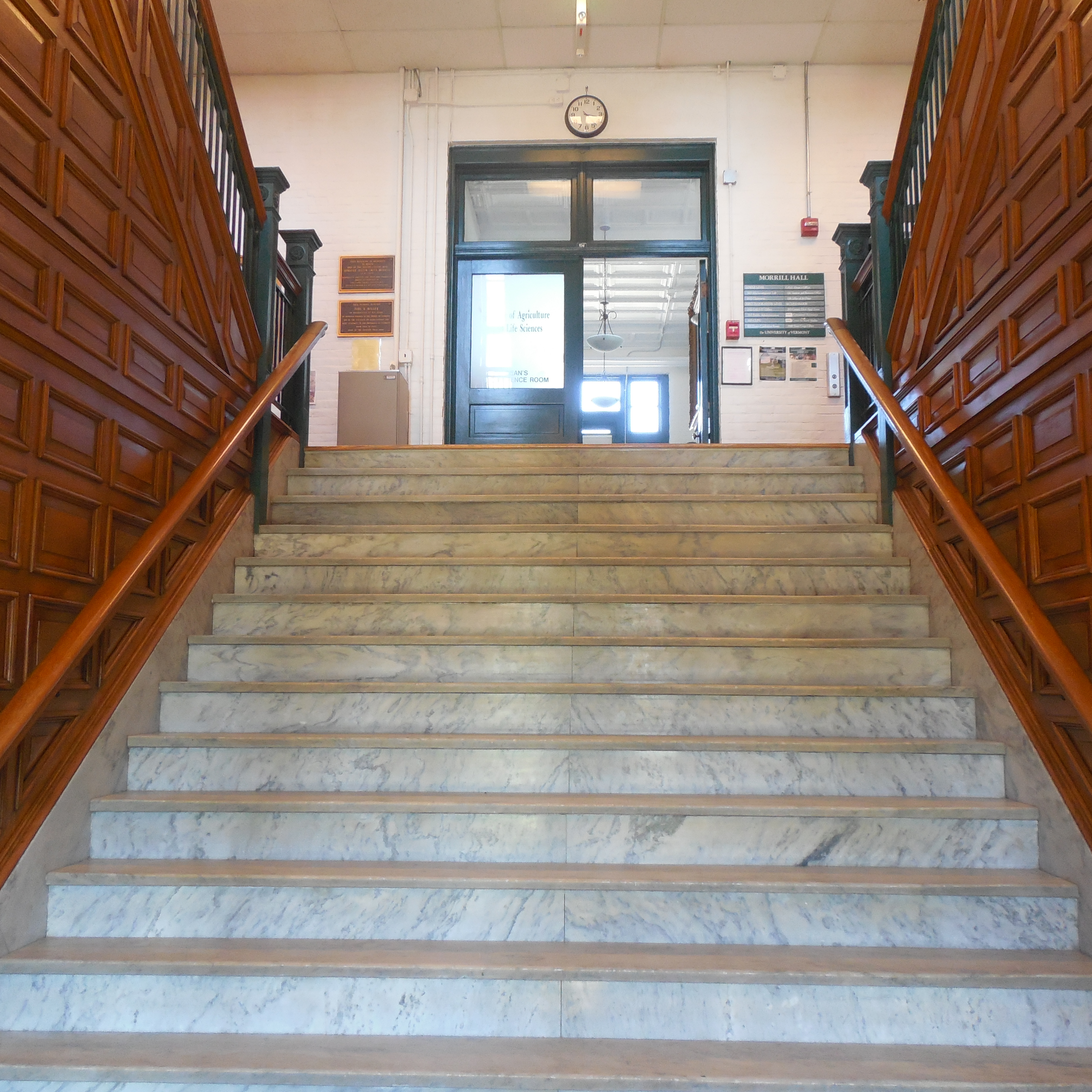 Marble stairway of the first floor front entrance of Morrill Hall at the University of Vermont campus: July 2015